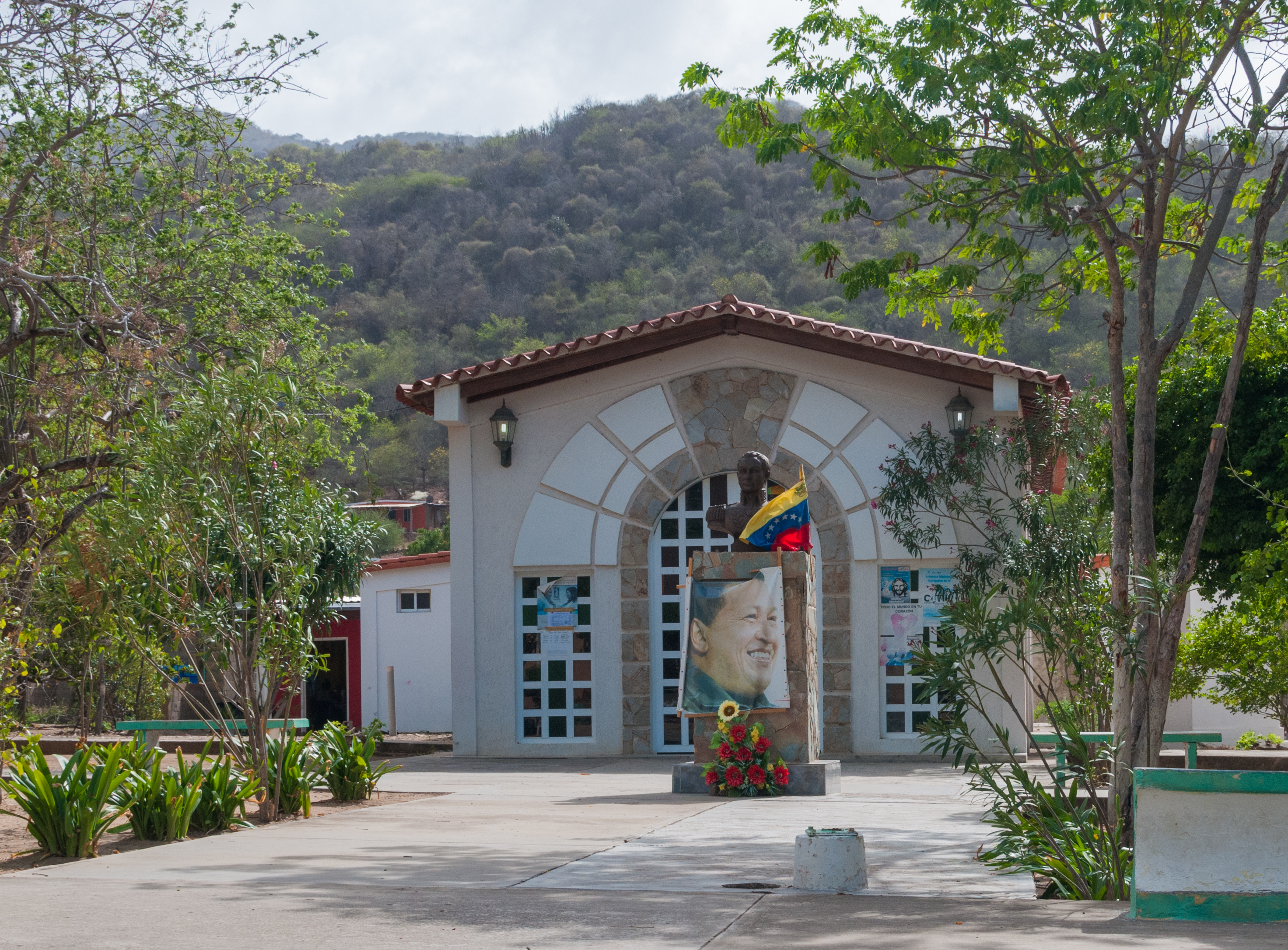 Church Facade in San Francisco de Macanao, Margarita Island, Venezuela